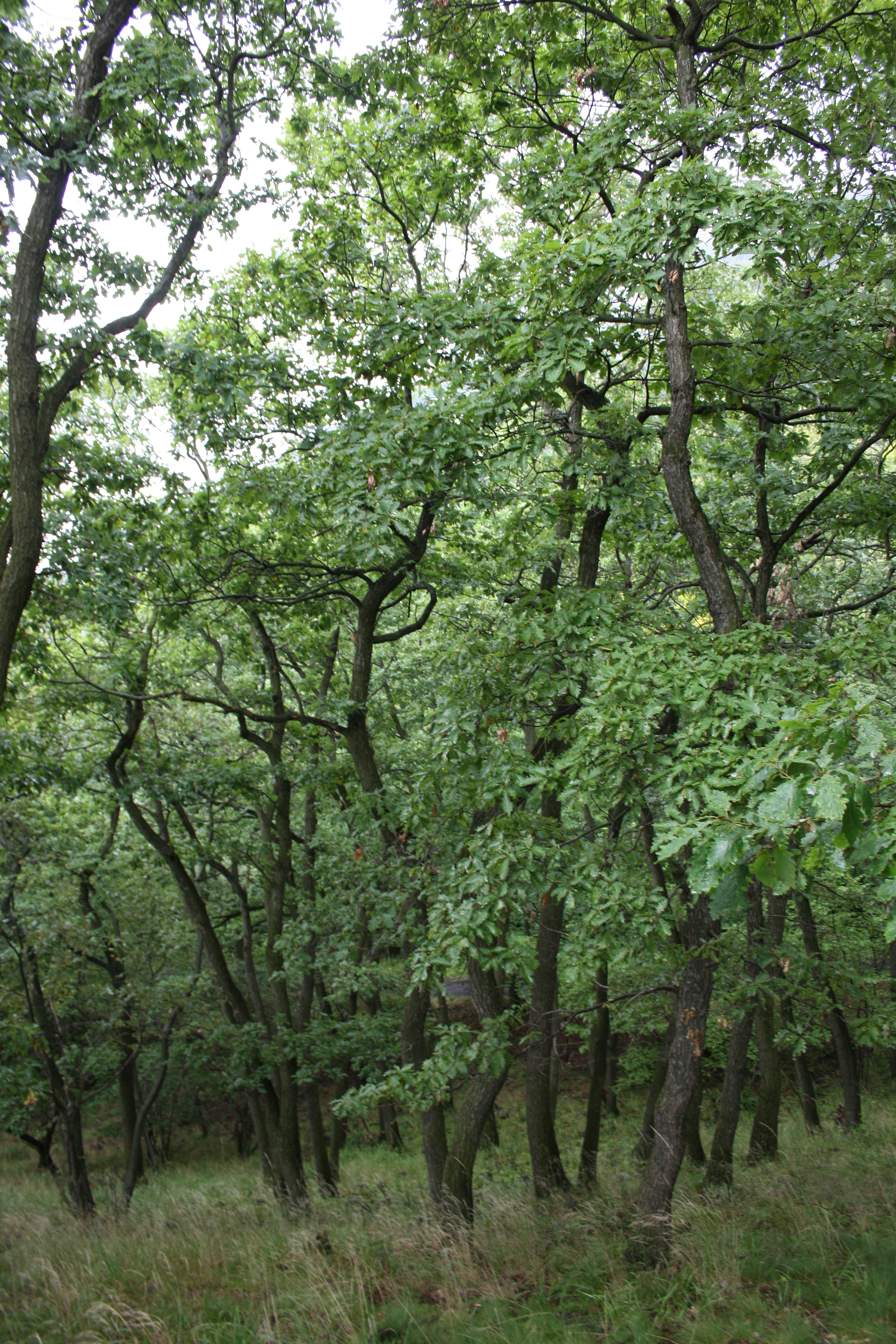 Oak forest under Milešovka, České středohoří, Czech Republic.